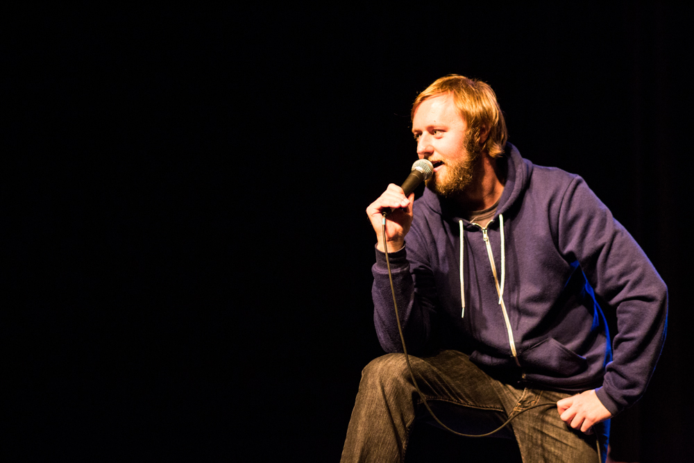 American comedian Rory Scovel at Not It, ~The Mischief at SXSW~ March 2013 SXSW Comedy The Mischief CleftClips Photography by Rebecca Rotenberg